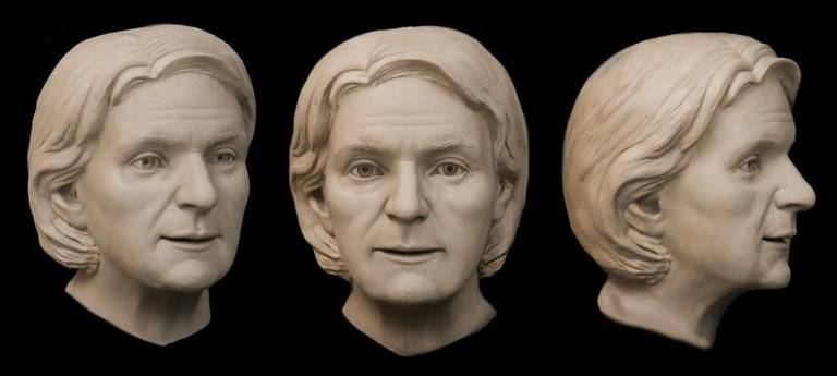 Clay reconstruction of an unidentified woman discovered in New York in 2015